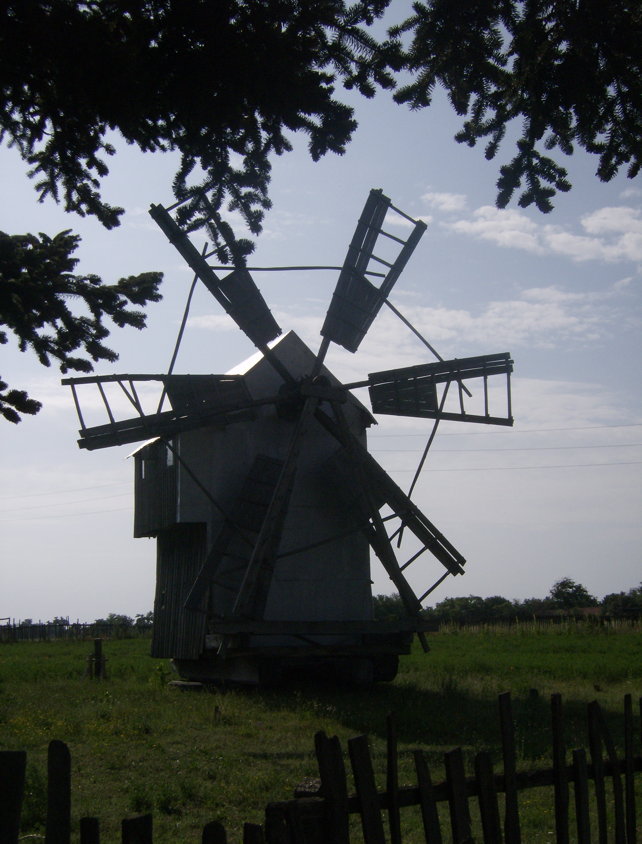 Windmill near Belintsi, Bulgaria